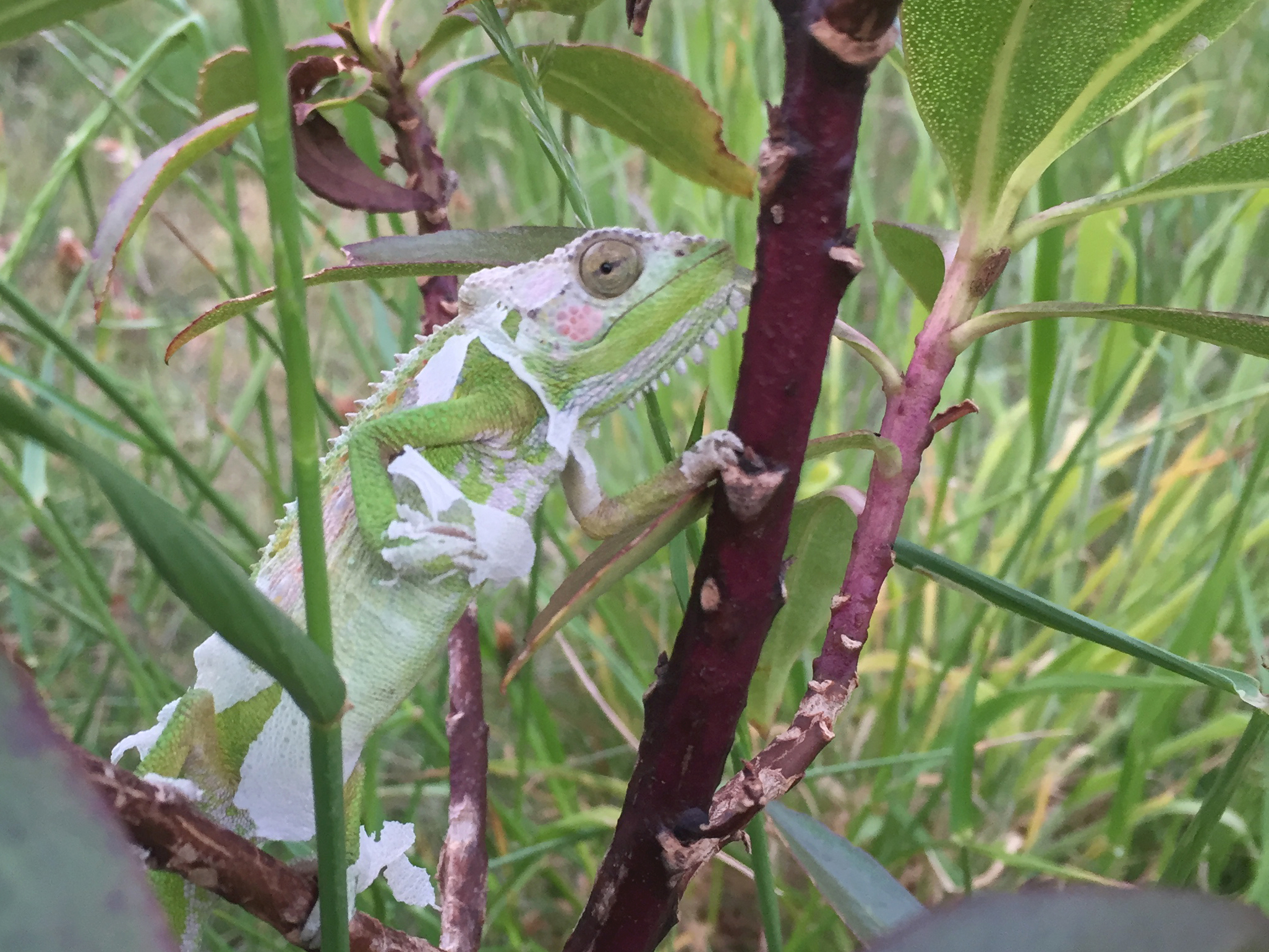 Cape Dwarf Chameleon moulting in a garden in Sandbaai, Hermanus, in the Western Cape of South Africa.